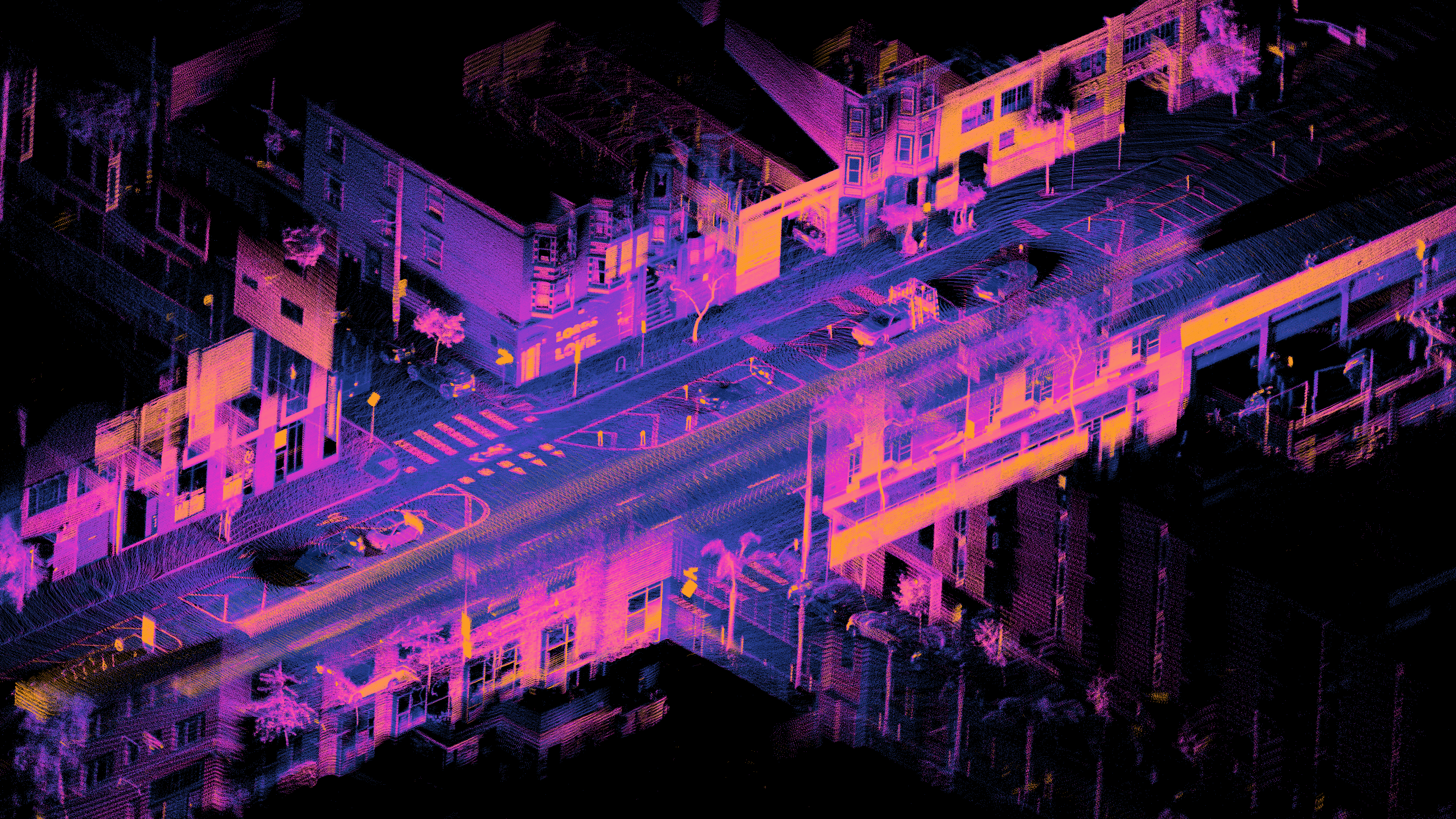 Orthographic projection of a registered point cloud captured over 18 seconds using an Ouster OS1 lidar mounted on a moving car. Approximately 23 million points were produced by the lidar during this time. The points are registered in real time as the vehicle's trajectory is estimated using a simultaneous localization and mapping algorithm. The points are coloured by a function based on raw lidar intensity (i.e. return strength) multiplied by range, with orange signifying brighter regions, and dark blue signifying darker regions. Lidar is a popular sensor for self driving cars. Intersection of Folsom and Dore St, San Francisco, US.